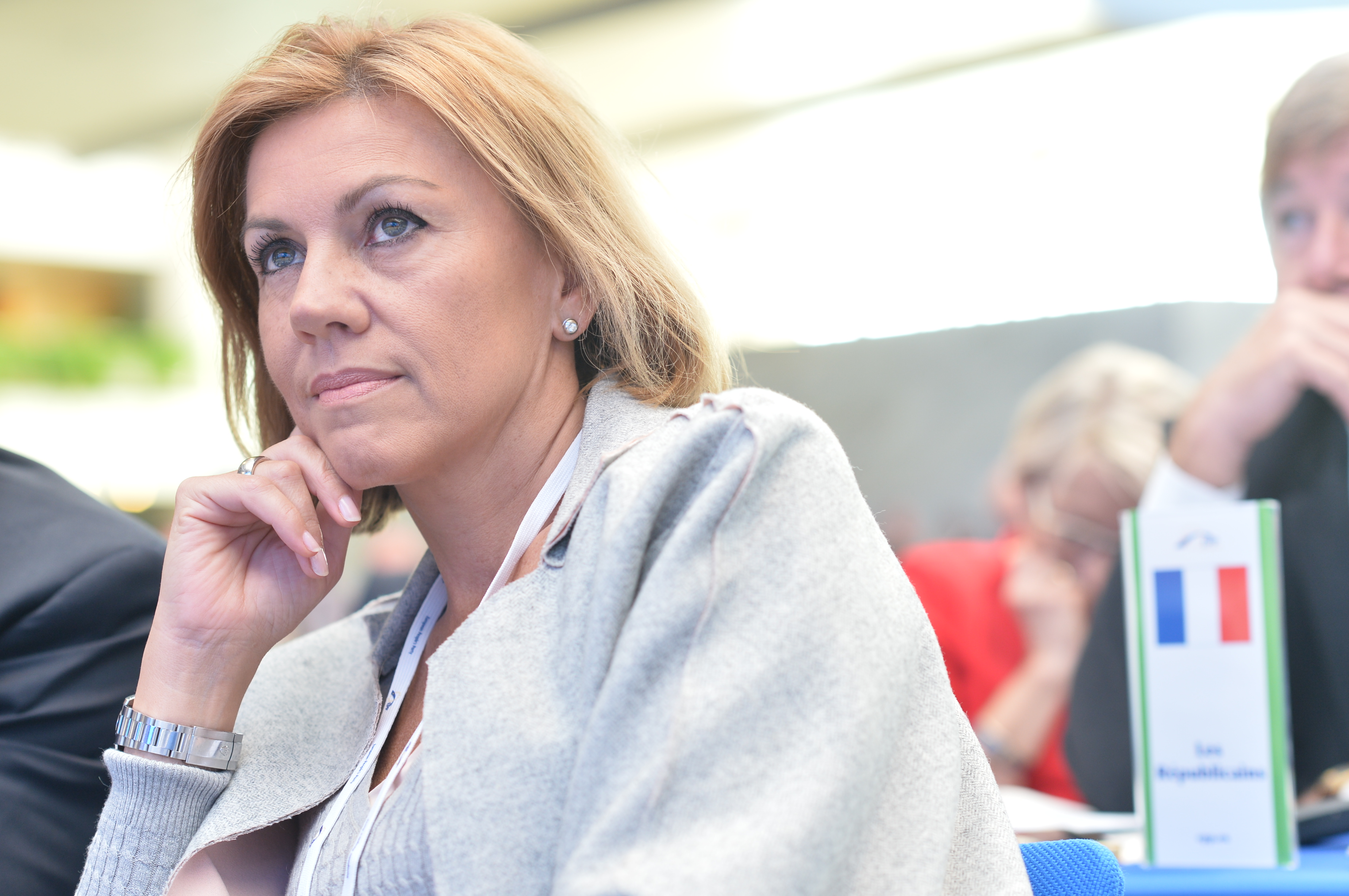 EPP Congress Madrid - 22 October